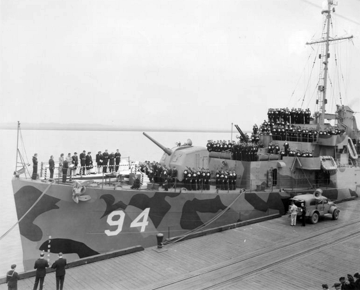 United States Navy high-speed transport USS John Q. Roberts (APD-94)